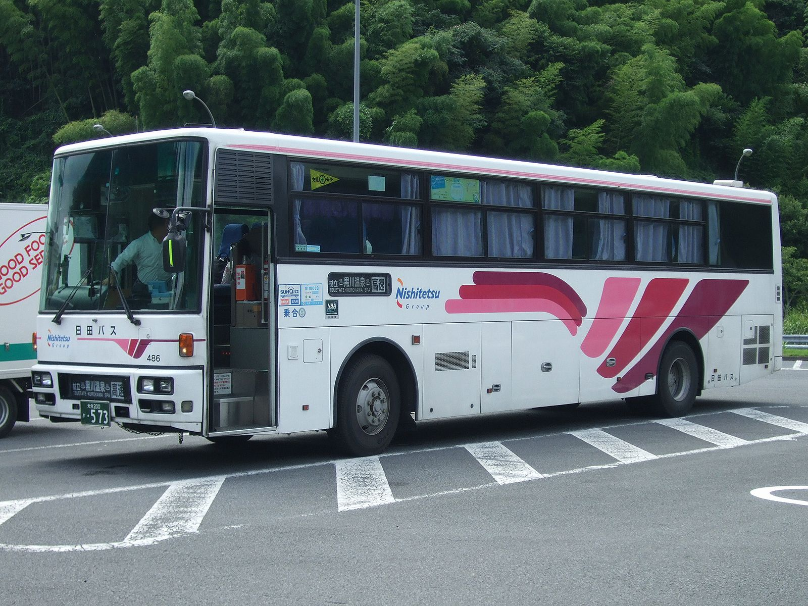 The highway bus operated between Fukuoka and Kurokawa Spa. Company:Hita Bus Use:transit bus (highway bus) Belongs to:Hita depot Car license:OT 200 KA 573 Code:486 Chassis manufacturer:Nissan Diesel Coachbuilder:Nishinippon Shatai Kogyo Location:at Hagio Parking Area, Hita City, Oita, Japan.